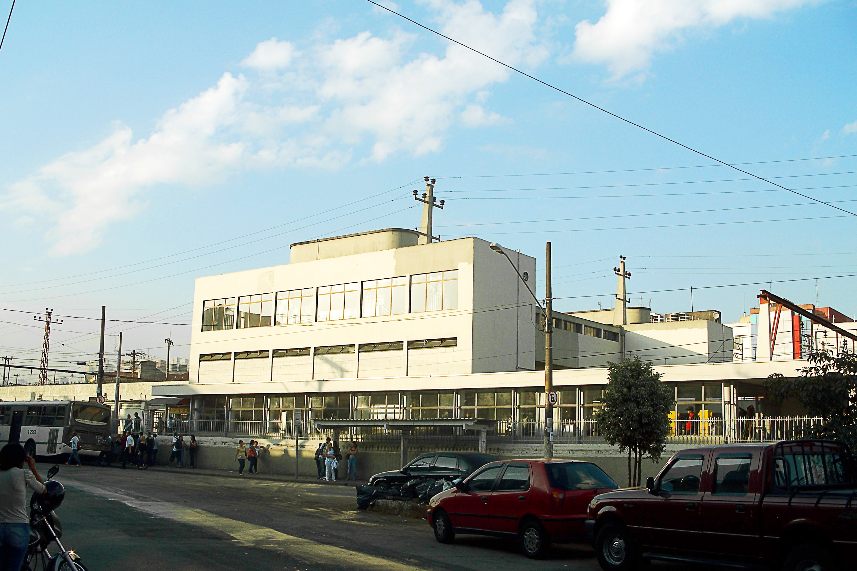 View of Lapa station's façade (Line 7 of CPTM), in São Paulo, Brasil.